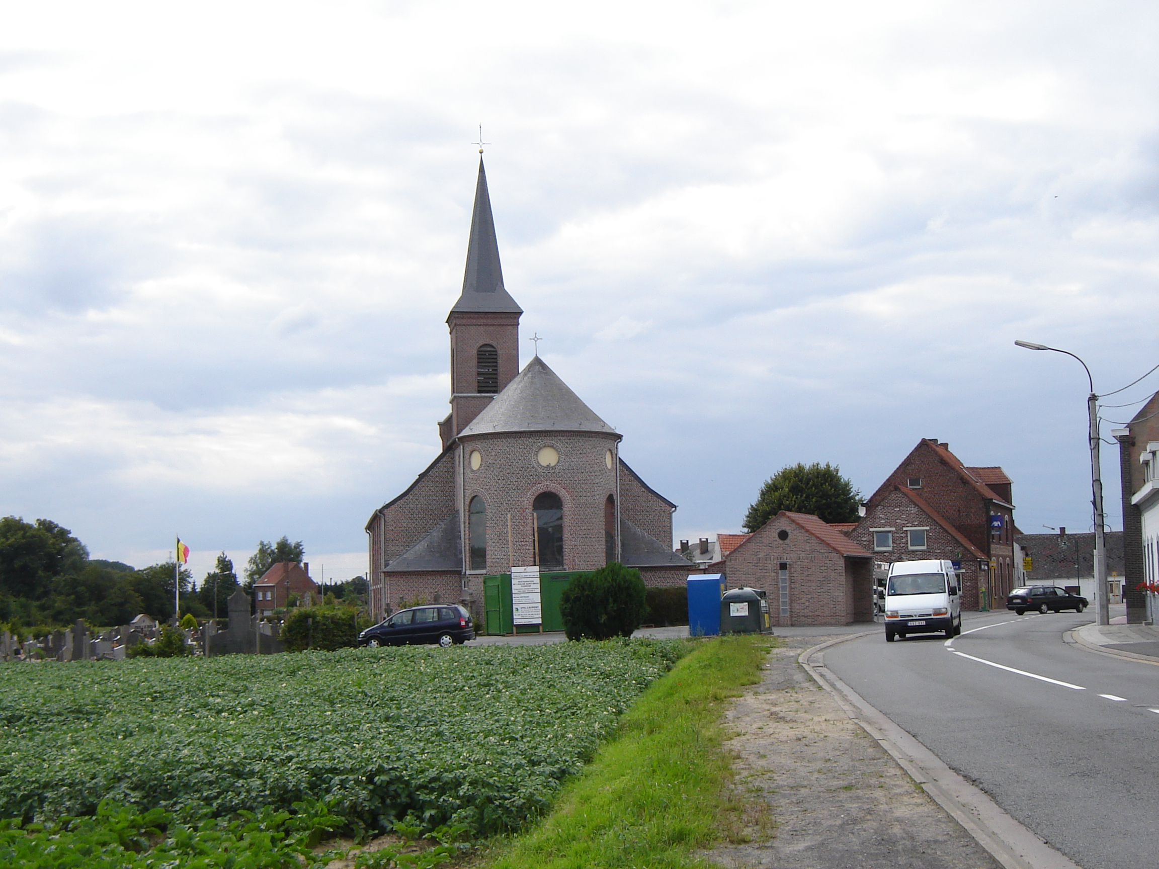 View on Orroir and the church of Saint Bricius. Orroir, Mont-de-l'Enclus, Hainaut, Belgium.